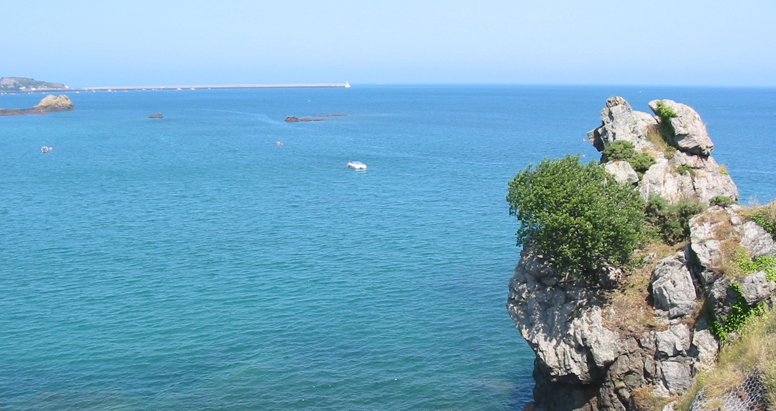 Le Saut Geffroy (Geffroy's Leap) with St Catherine's breakwater in background. St Martin, Jersey Photo taken by Man vyi with Canon PowerShot A40 on 15/7/2005